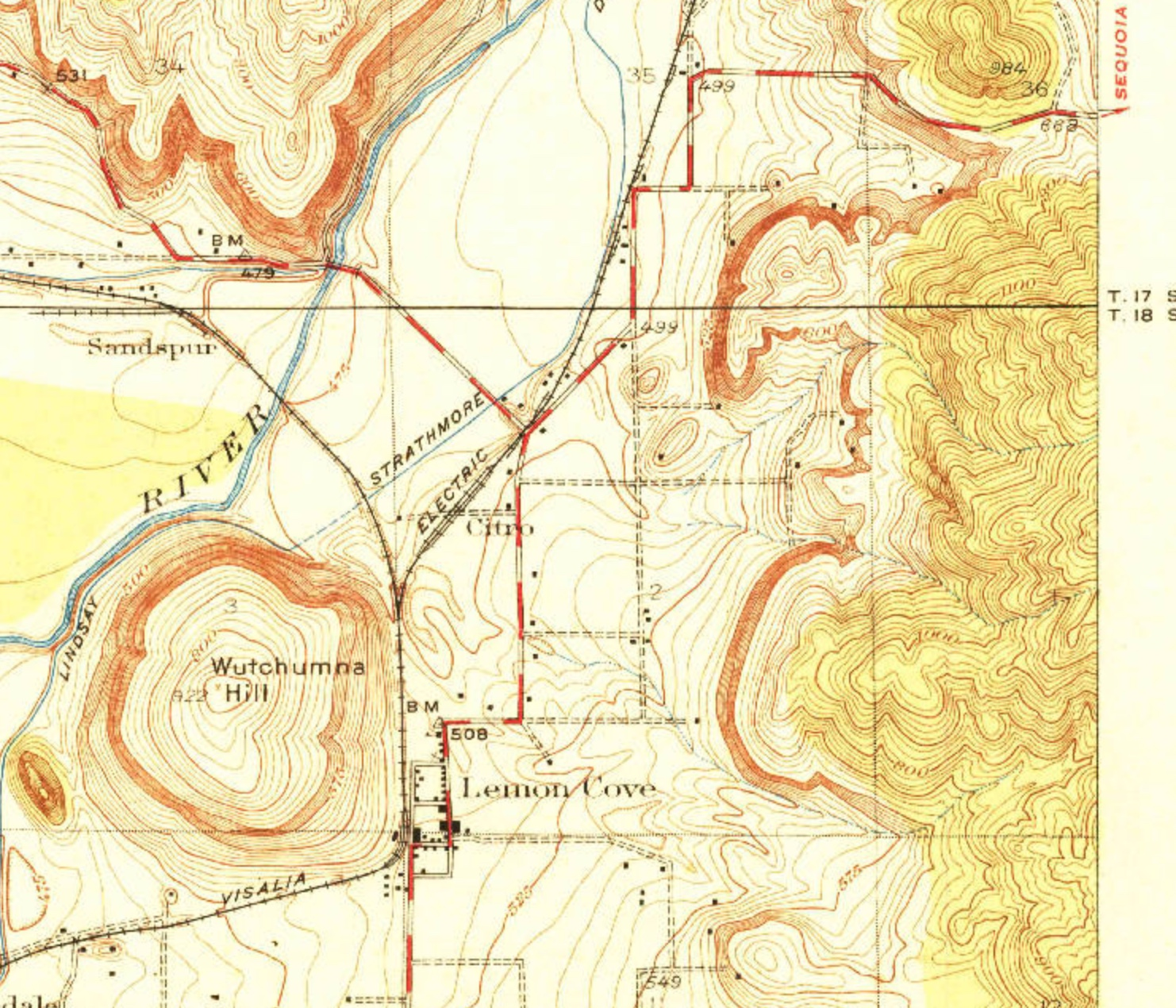 Rail terminus in 1928